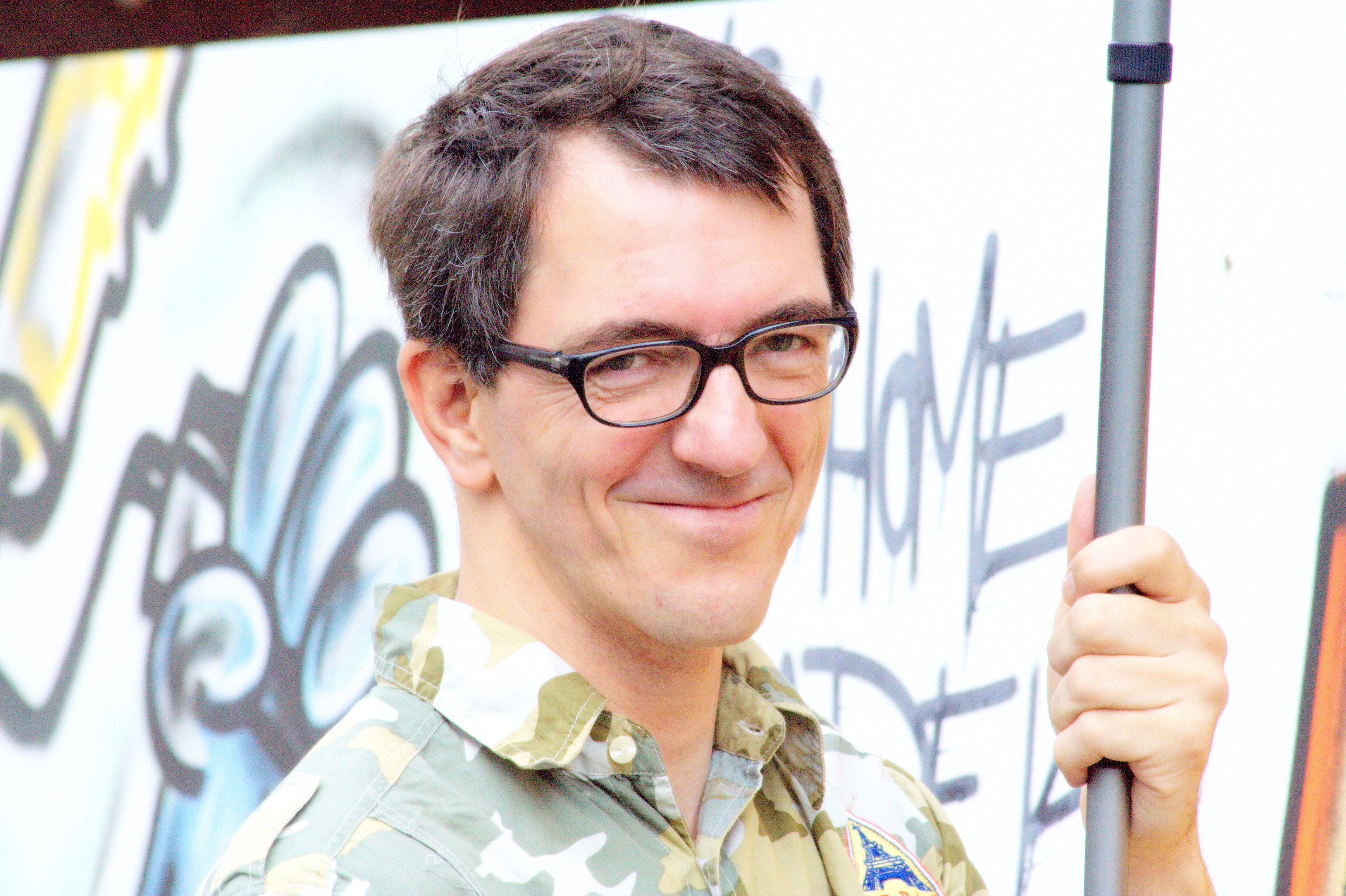 Matthias Roeingh aka Dr. Motte